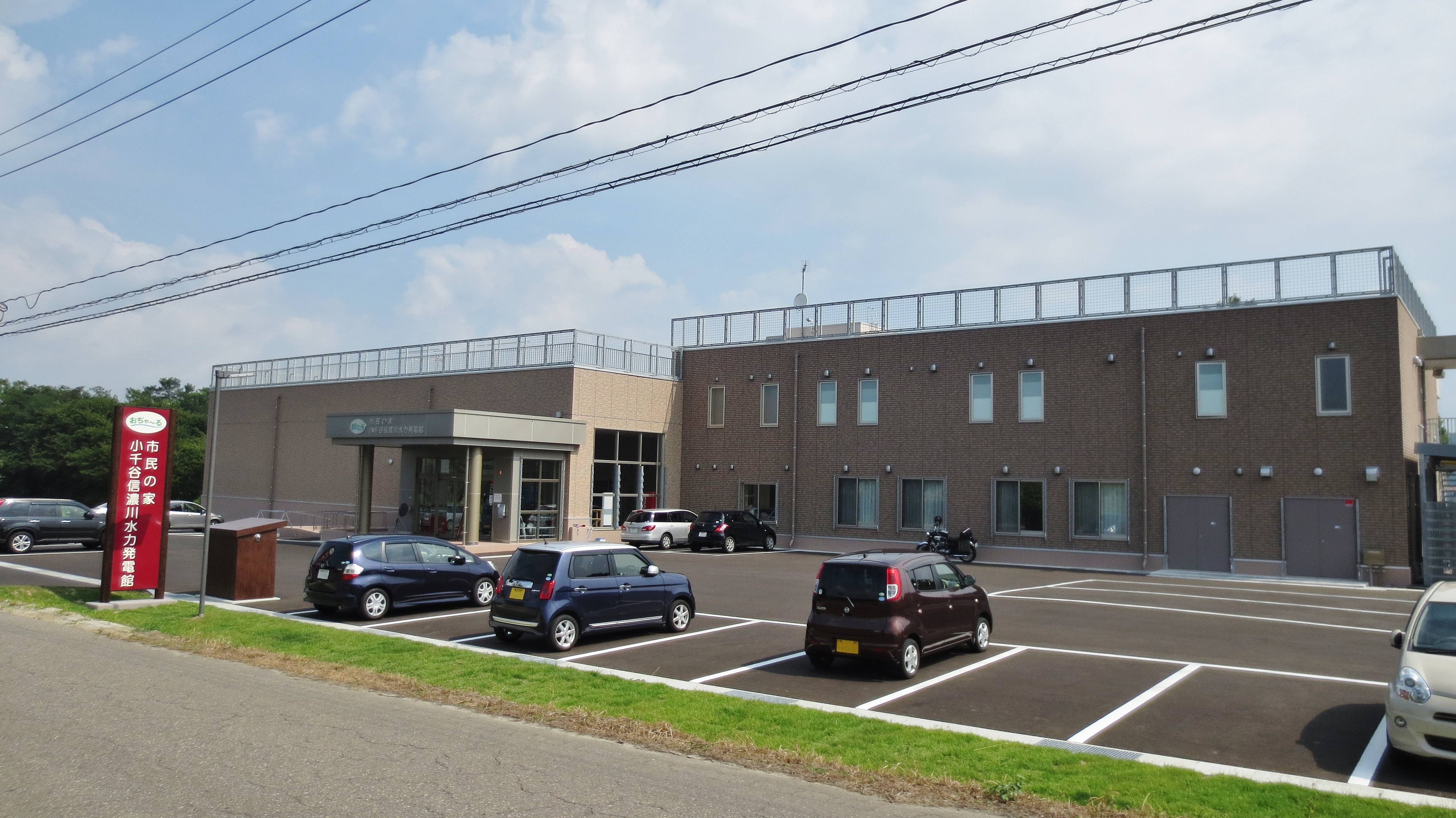 Ojiya-R.